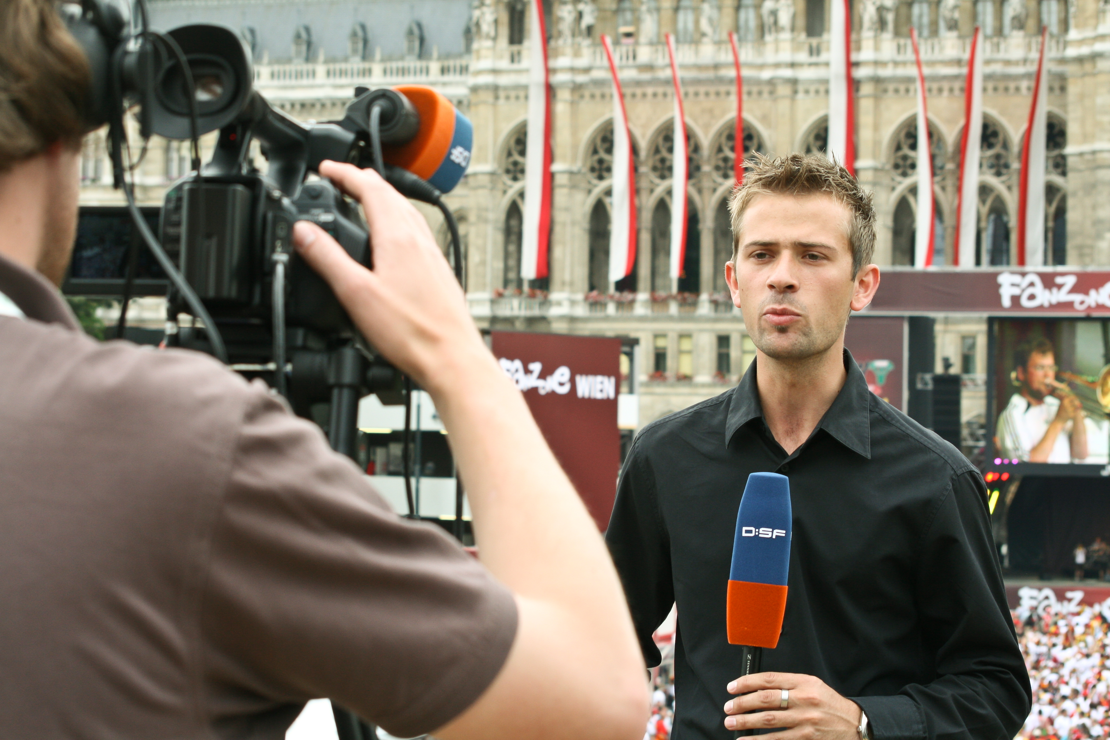 Public Viewing in Vienna during UEFA Euro 2008